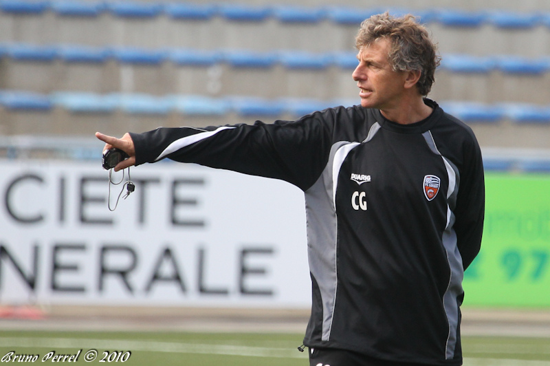 Christian Gourcuff, FC Lorient coach during a practice in September 2010